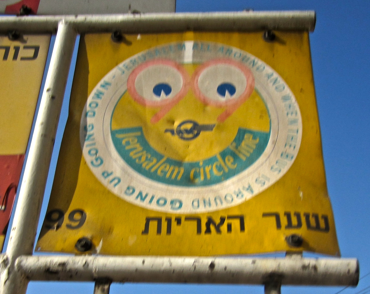 Jerusalem, 99 Touring Bus circular line, Lions Gate bus station - Walking outside the old city walls towards the Mount of Olives -- this sort of thing isn't going to help with the heat madness! Jerusalem